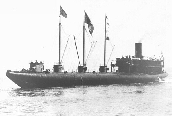 The whaleback steamer City of Everett prior to her sinking